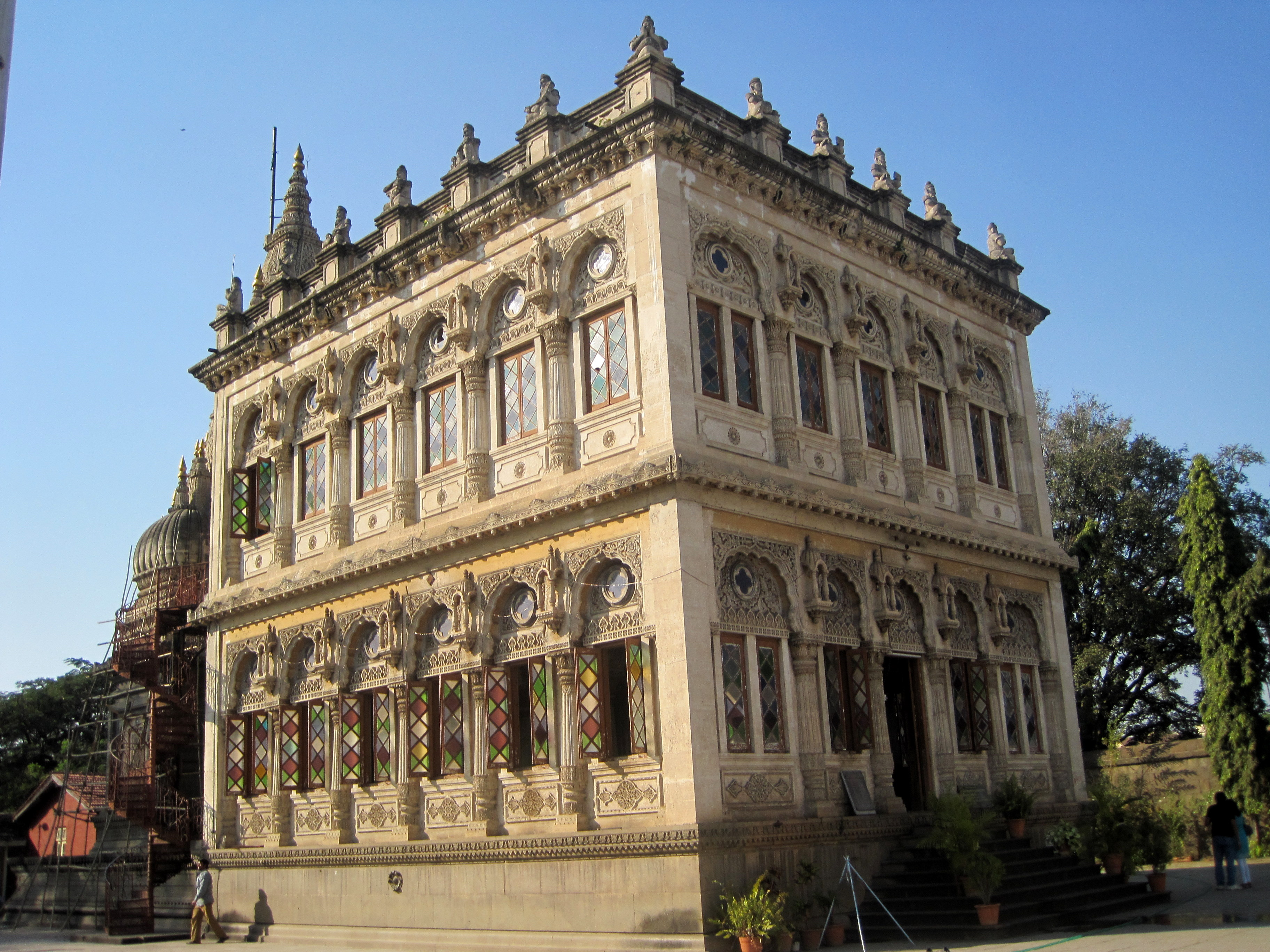 Shinde Chhatri (Marathi : शिंदे छत्री), located in Wanowrie, a well known place in Pune, India, is a memorial dedicated to the 18th century military leader Mahadji Shinde who served as the commander-in-chief of the Maratha army under the Peshwas from 1760 to 1780.